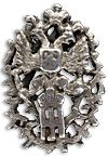 Badge for graduator of Foreign High Since & War Cources of professor Nikolay Golovin. These High Courses were esteblished in Paris in 1927 and were closed after WWII broken. Courses were aiming to educate officers of future Russian Army, to be served Russia after collapse of bolshevists. Badge made in France during 1930-s. Silvered brass.